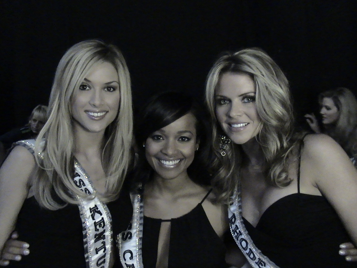 Tara Conner (Miss Kentucky USA 2006), Tamiko Nash (Miss California USA 2006) and Leeann Tingley (Miss Rhode Island USA 2006) at the taping of the Miss USA special of Deal or No Deal in Los Angeles, California in March 2006. Conner would later go on to become Miss USA 2006, Nash her first runner-up, and Tingley a member of the top ten.